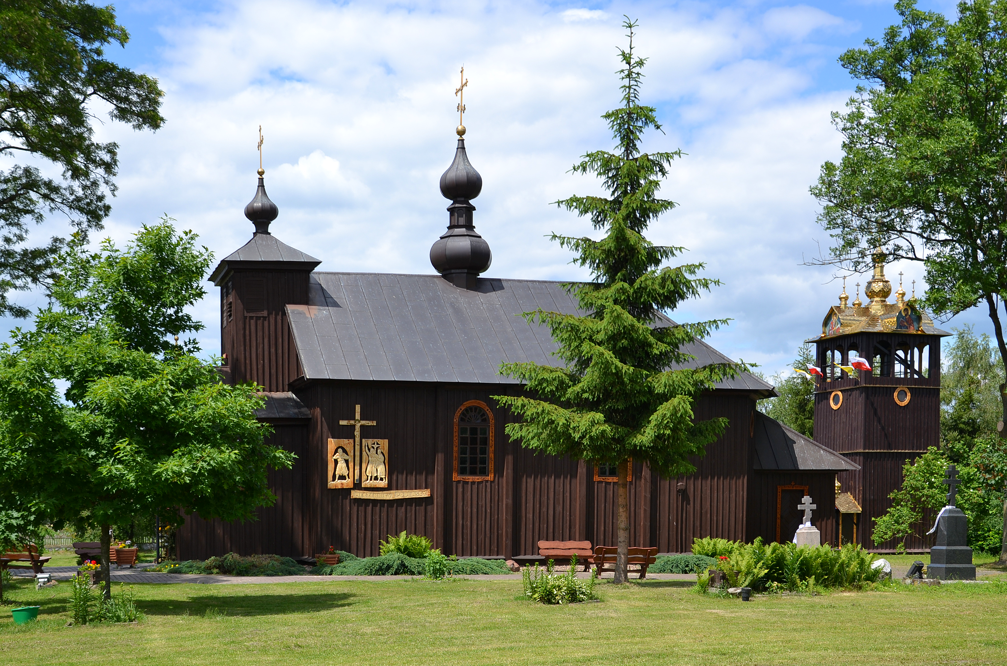 Neo-Uniate Saint Nicephorus church in Kostomłoty (Костомолоти), Poland